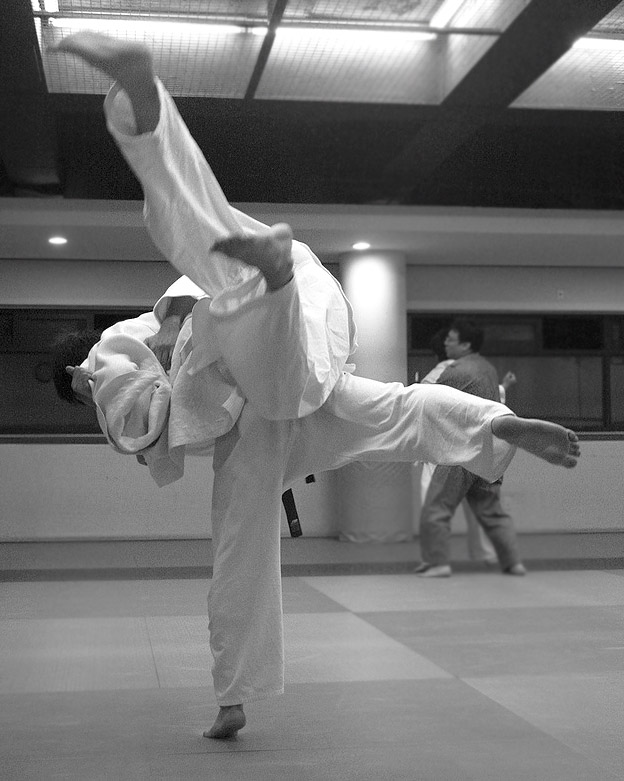 O guruma